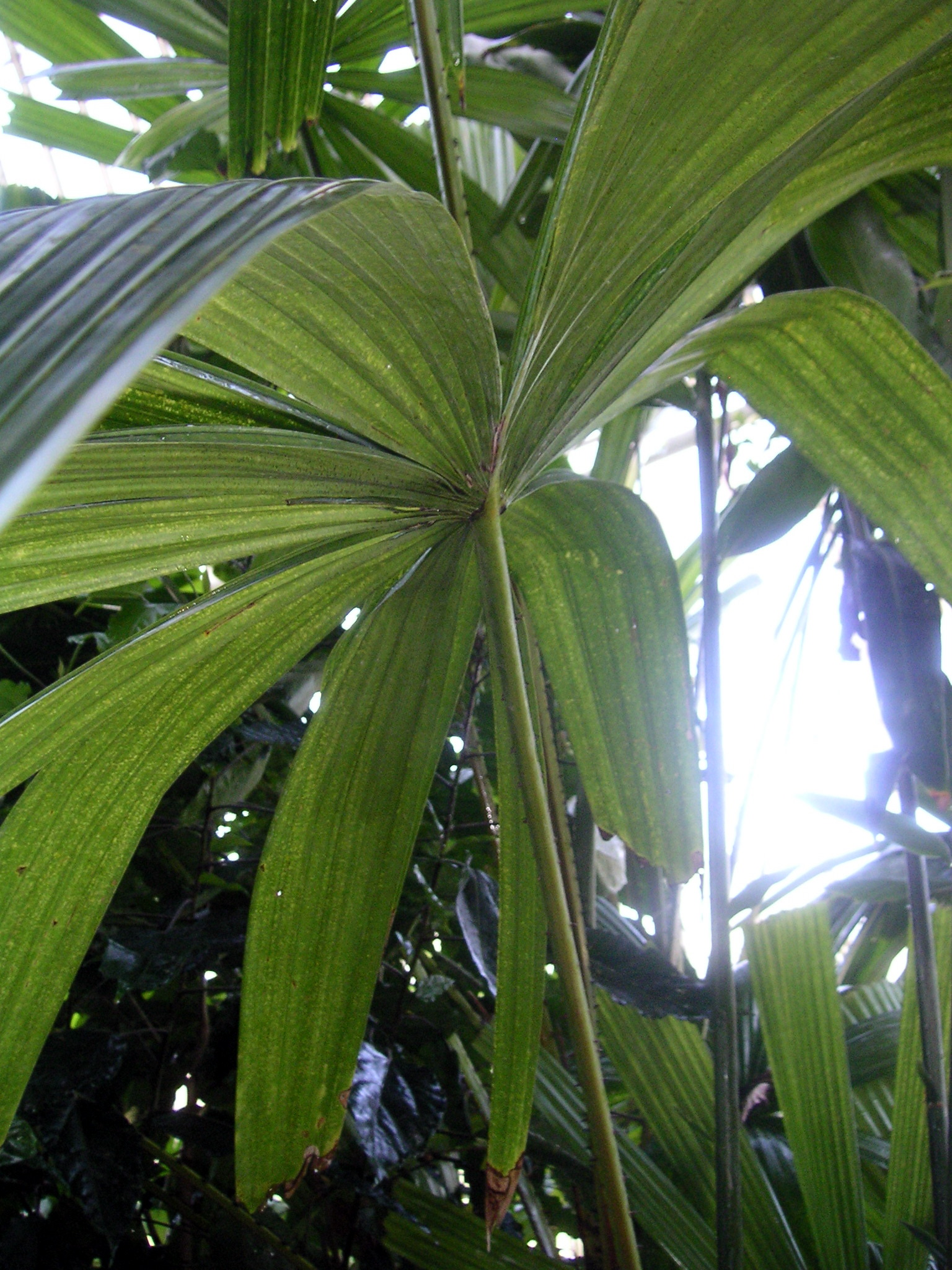 Licuala spinosa, Leaf, at Kew Gardens, London, UK